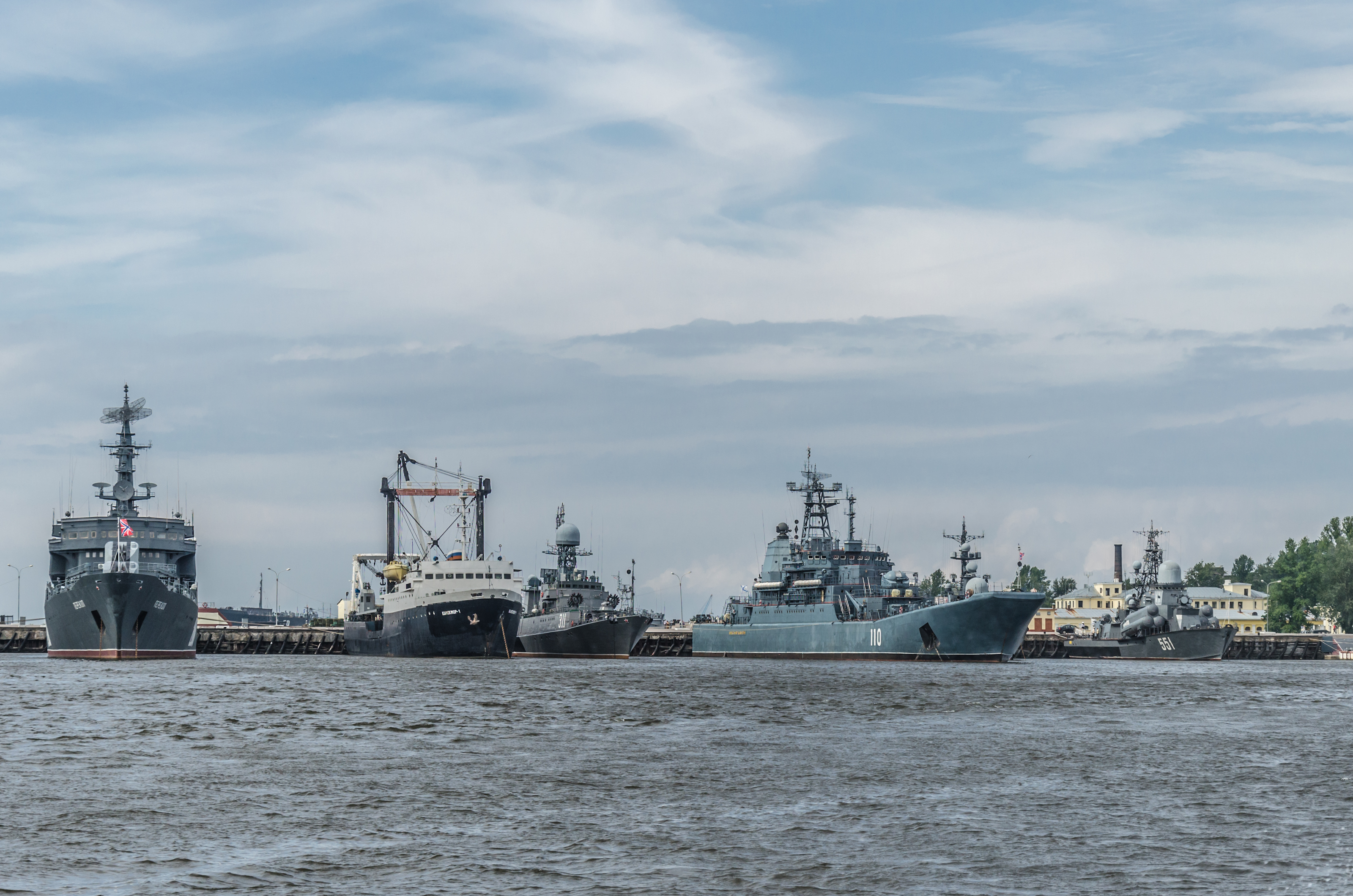 Ships in Kronstadt harbor: Perekop, Kilektor-1, Kazanets (311), Aleksandr Shabalin (110), Liven (551)